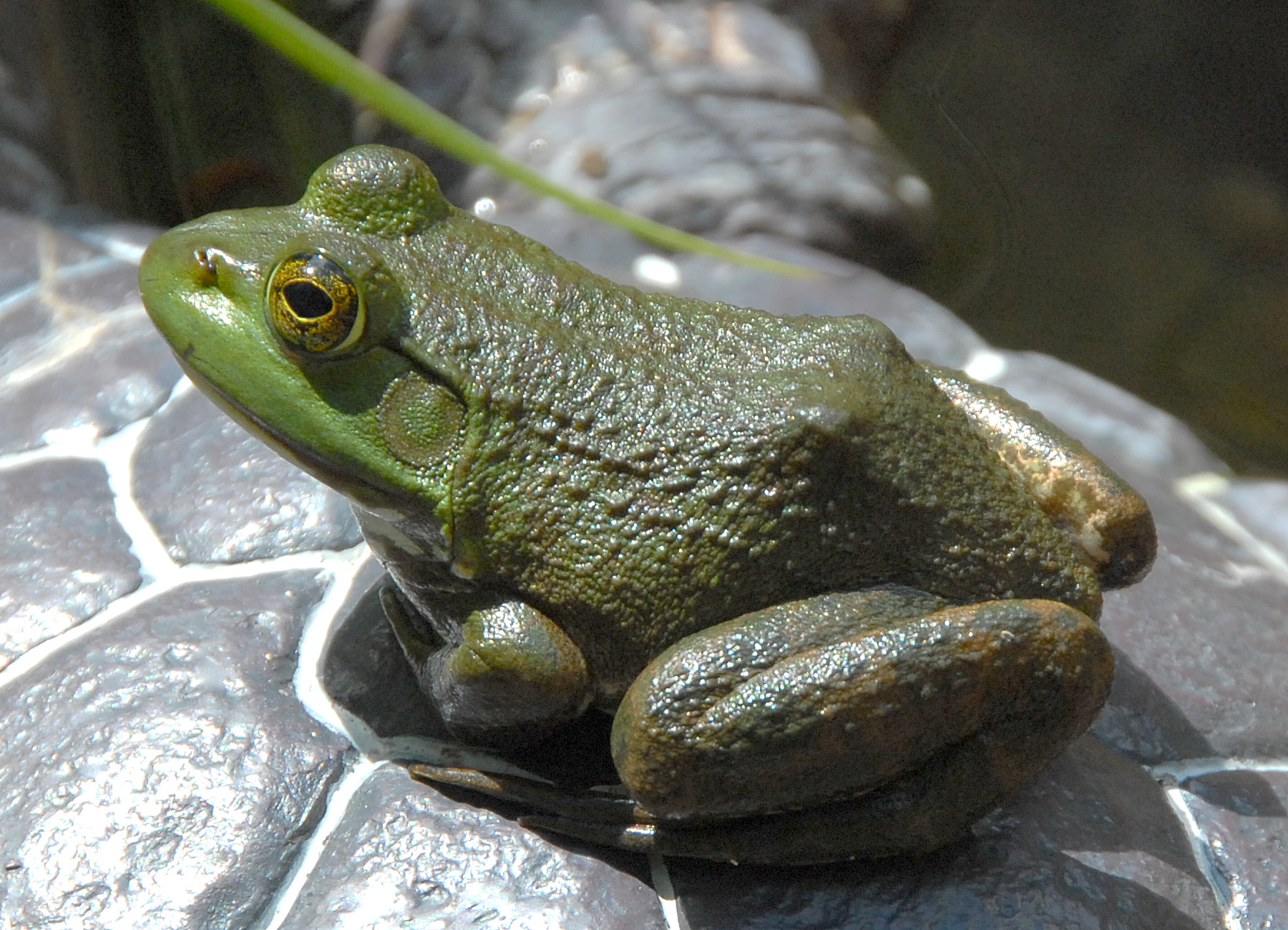 Photograph of the side of the American Bullfrogen (Rana catesbeiana en ), female specimen (relative small tympanic membrane).